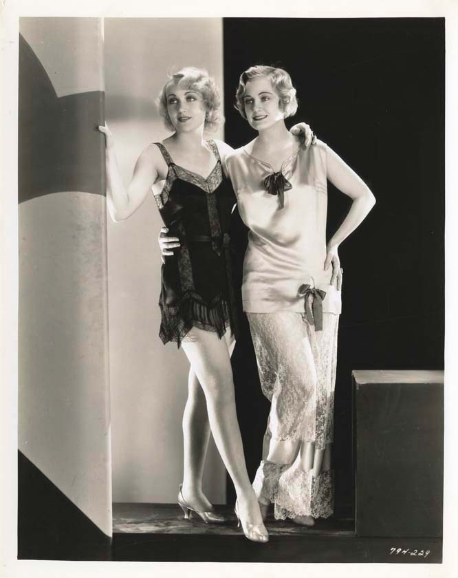 Publicity still for the film Safety in Numbers (1930), featuring Carole Lombard and Josephine Dunn. Such images were taken on set during filming, or as part of an organized photo-shoot, by a studio photographer. They were then disseminated to the media and the public to promote the film (see Film still). The white border and stock-code in the bottom-right corner confirm that this was a publicity still.